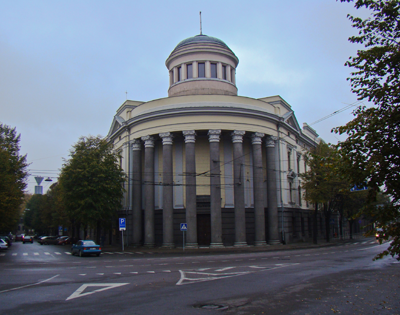 Kaunas National Philharmonic Society